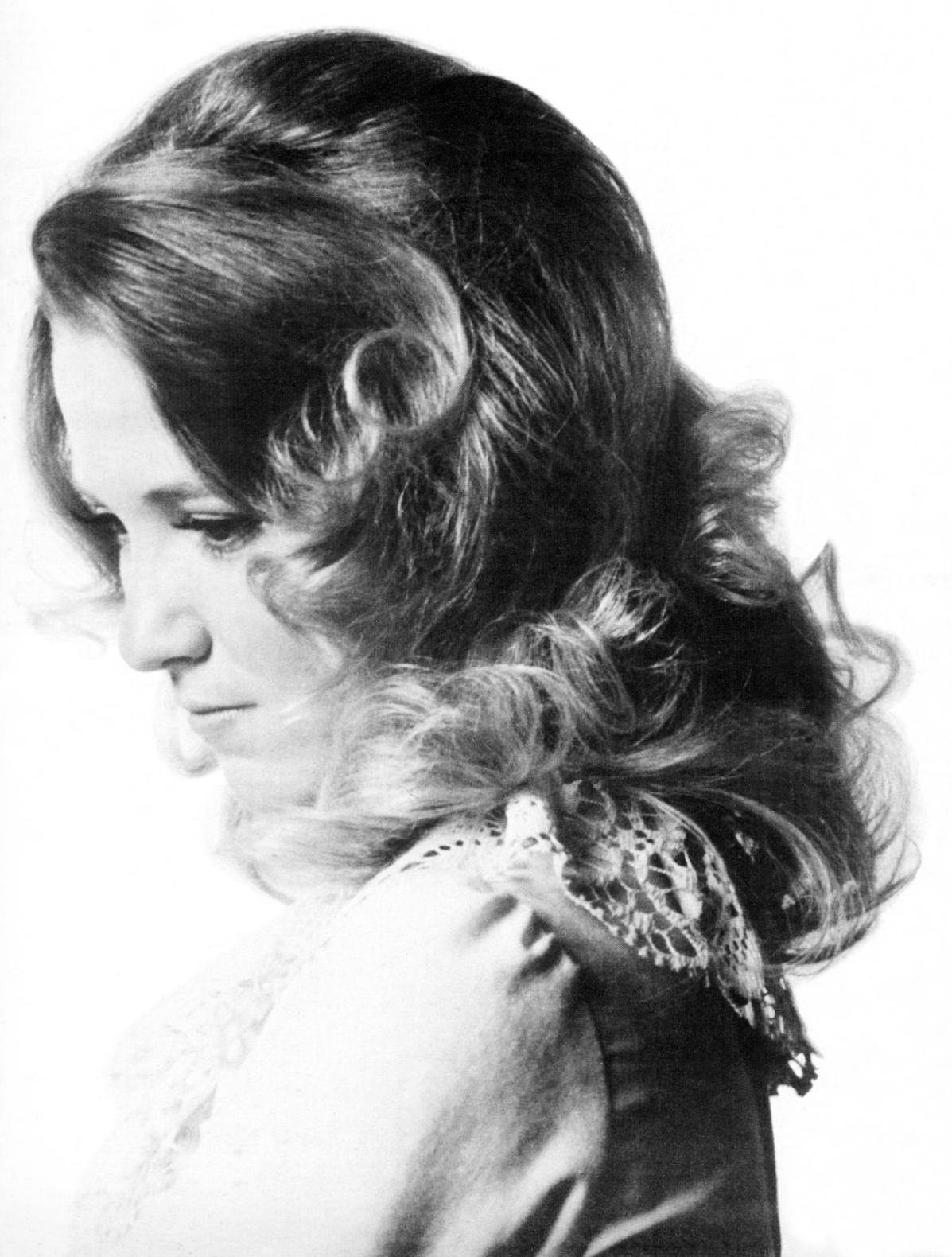 Trade ad for Tanya Tucker's singles. To better adapt it to his respective Wikipedia article, the ad was cropped and cleaned in a graphics editing program. The original can be viewed at the source below.